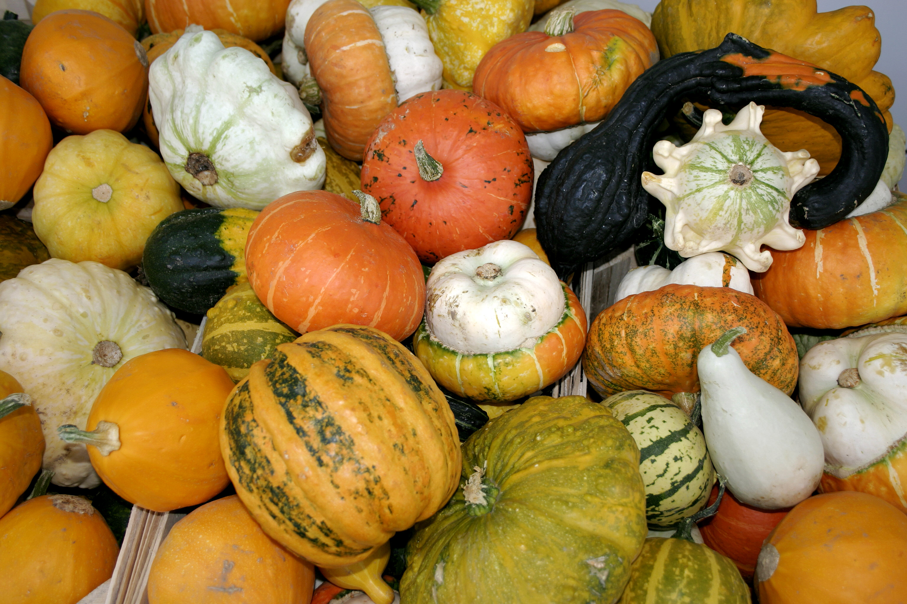 Pumpkins